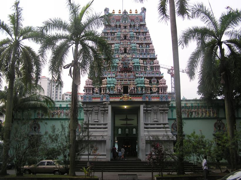 Sri Thendayuthapani Temple on Tank Road in Singapore.